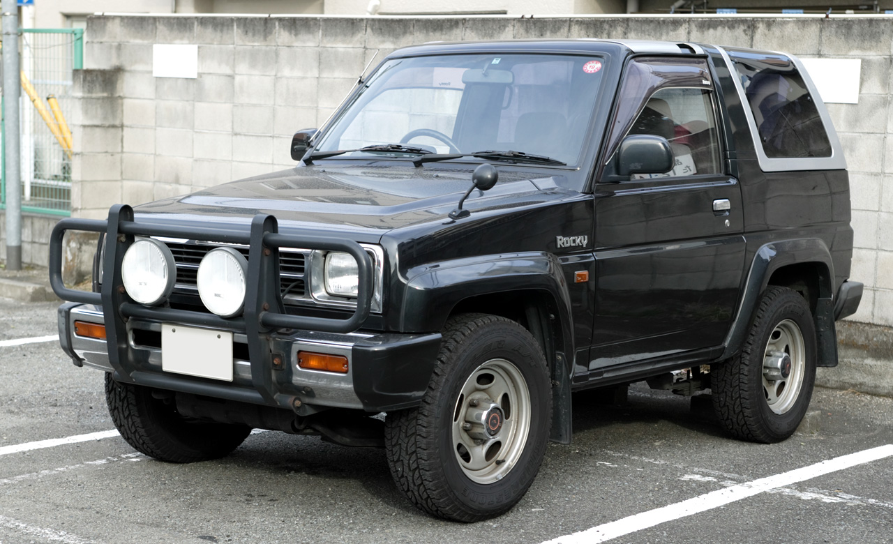 Image:Daihatsu Rocky, Japan spec ( F300S ).